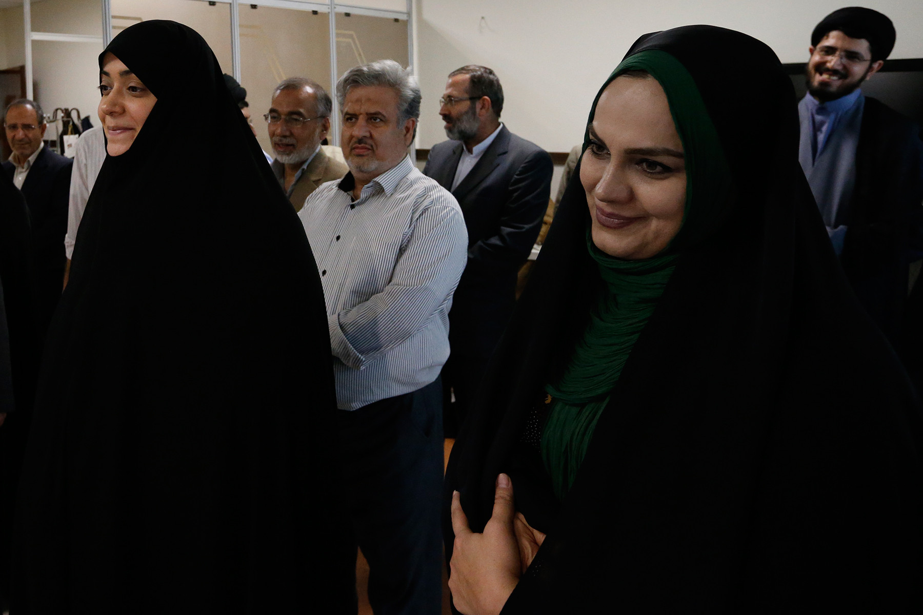 Artists and writers visiting Ali Khamenei in hospital